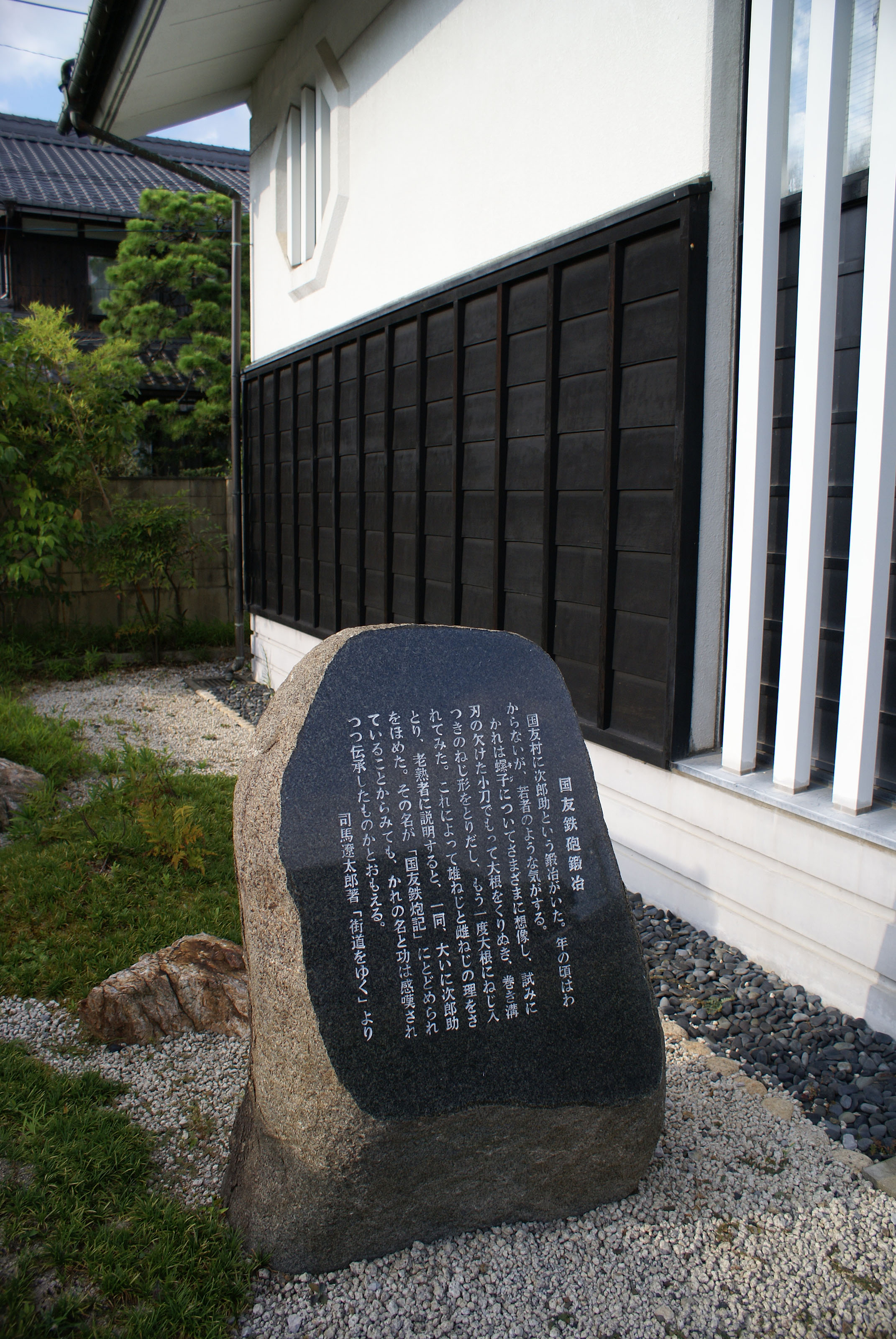 Scenery of the Kunitomo in Nagahama, Shiga, Japan